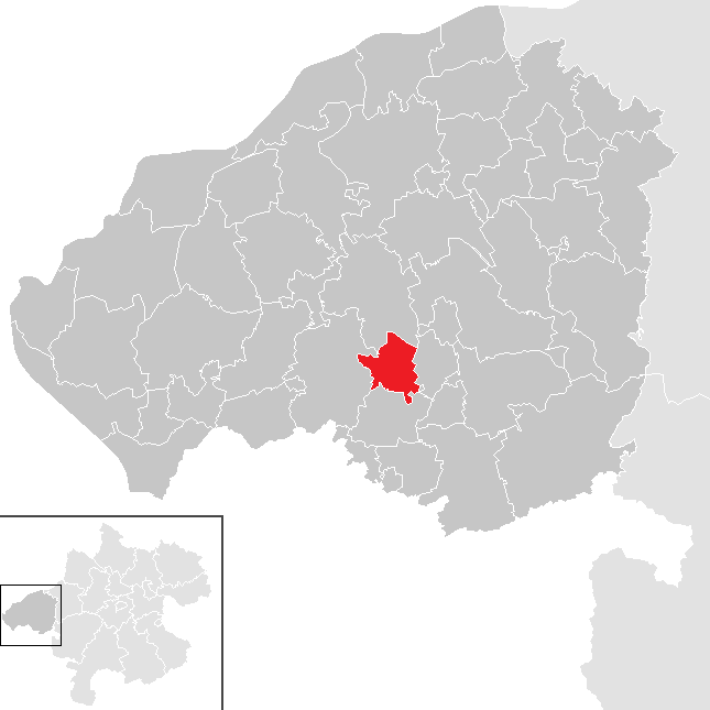 district Braunau am Inn